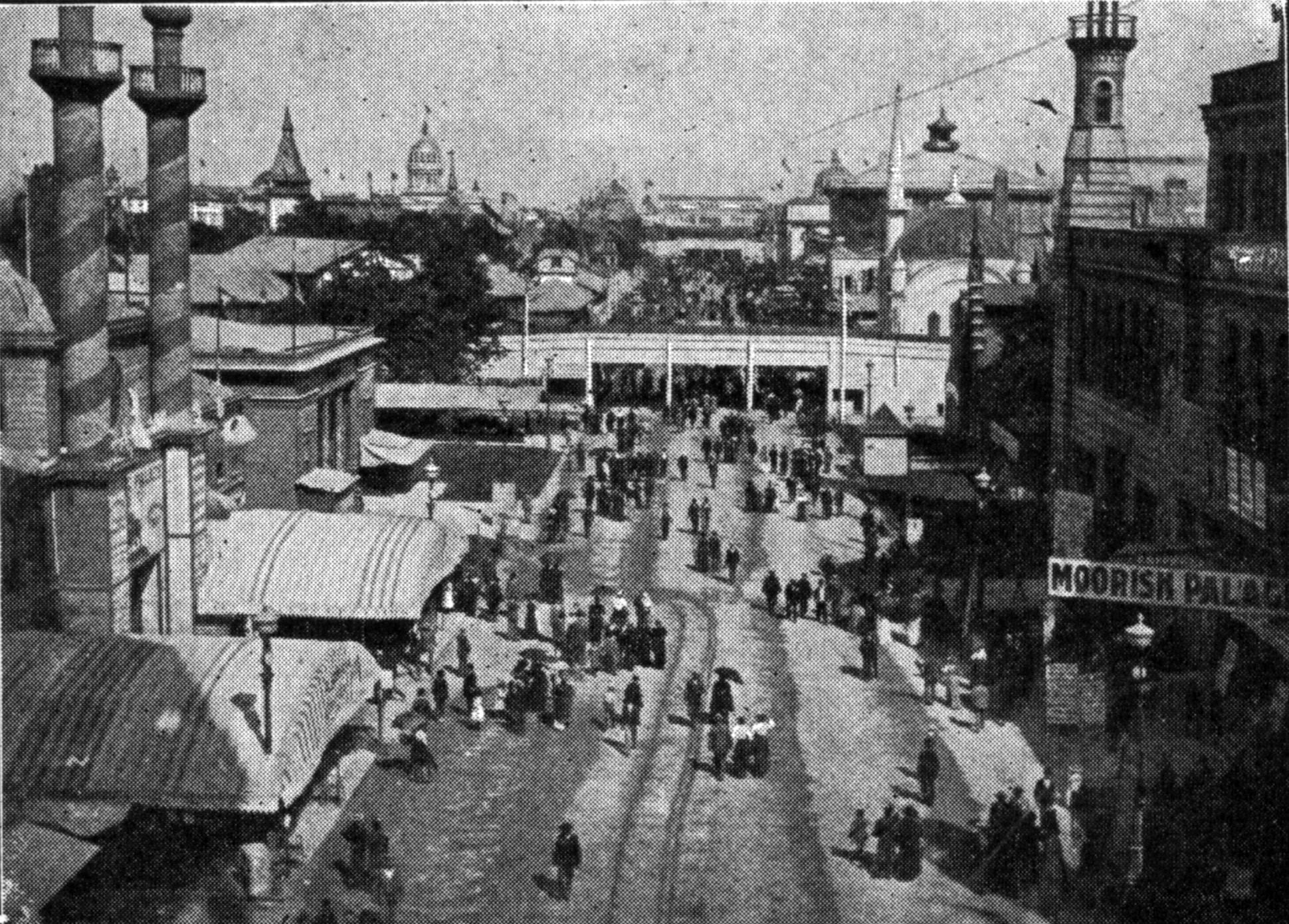 View from the Ferris wheel eastwards, Midway Plaisance, Chicago.